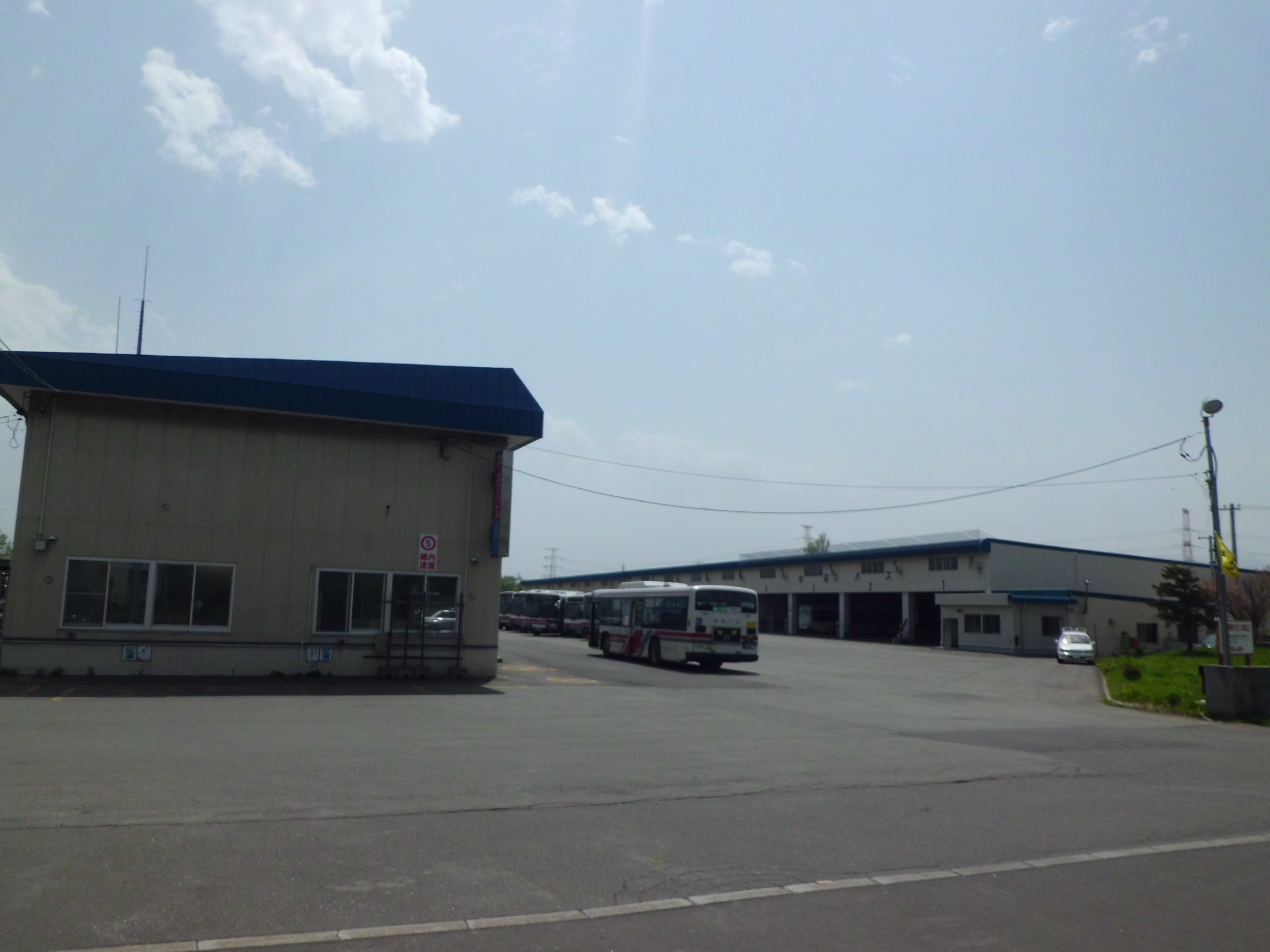 Hokkaido Chuo Bus Ishikari Office